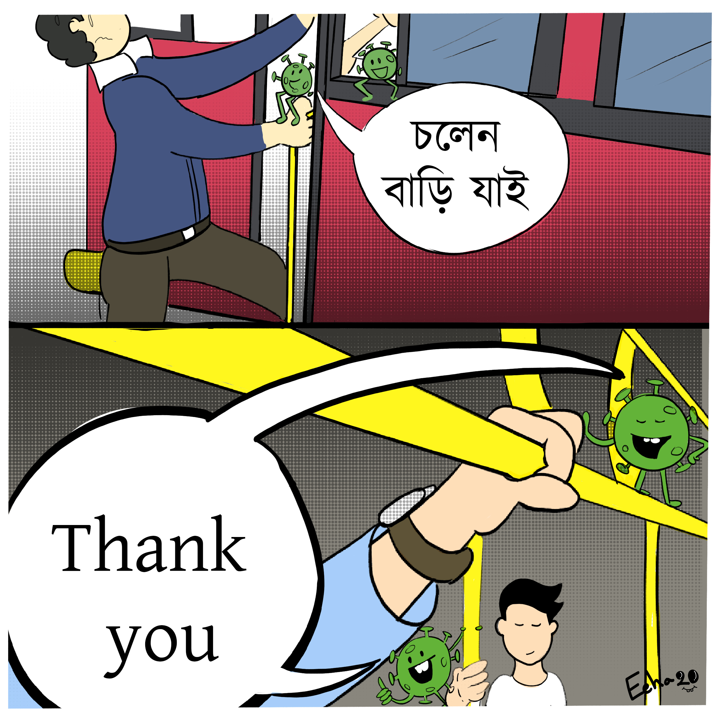 Artist, Visualization & dialogue : Anika Nawar Eeha Concept: Abdullah Al Mamun